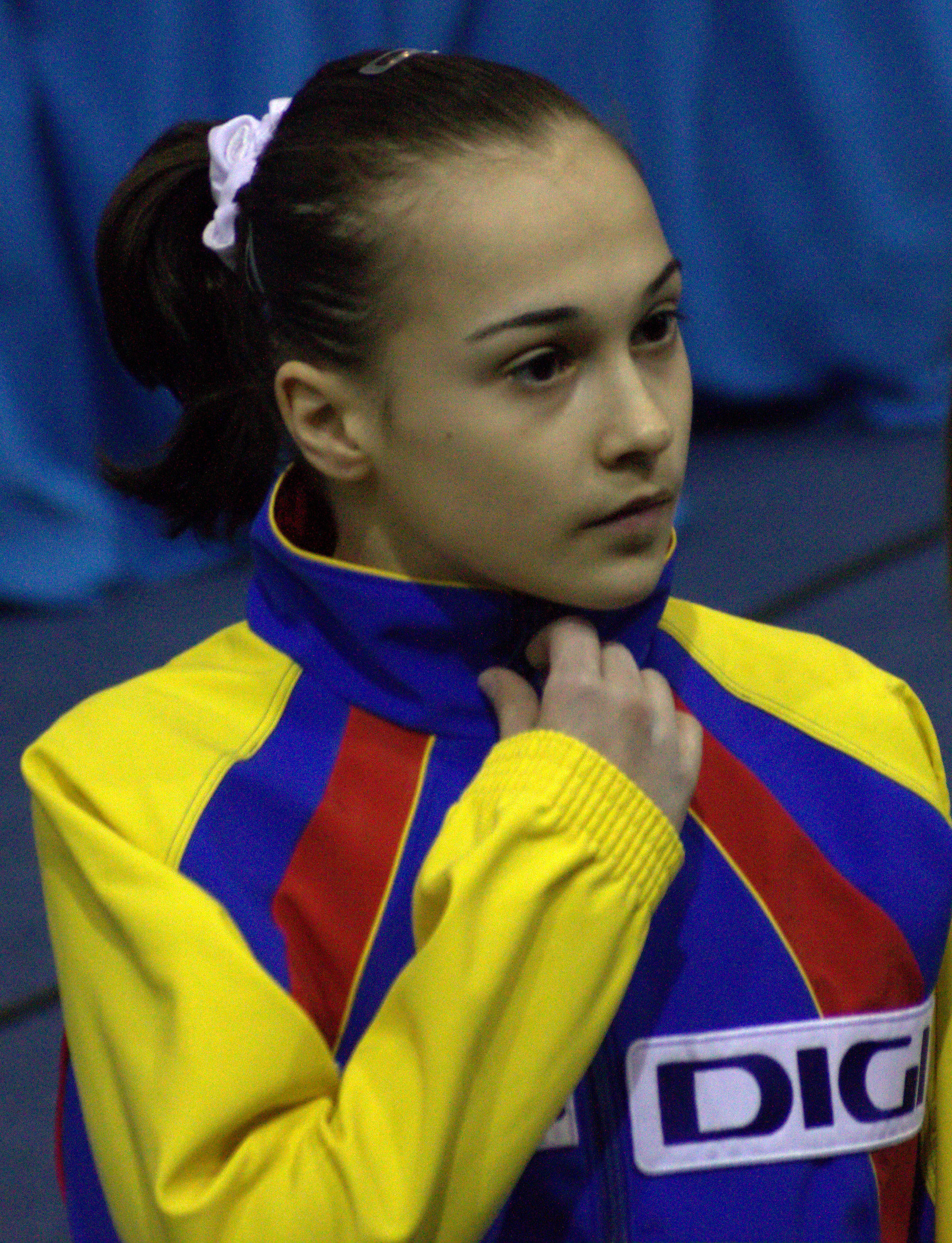 Raluca Haidu, a Romanian Women's Artistic Gymnast, at the 2011 Glasgow Grand Prix